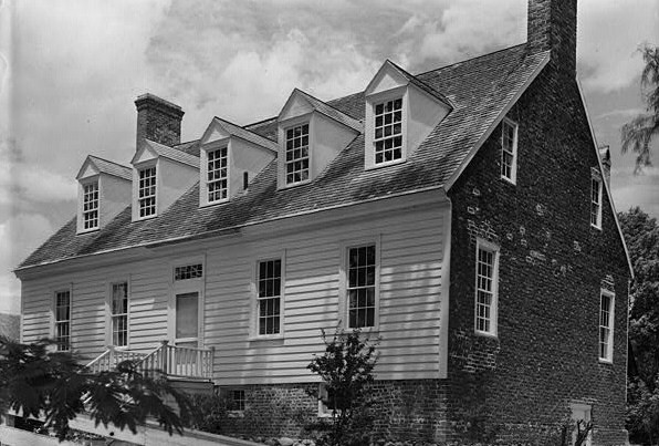 Brick House, 182 Brick House Lane, Elizabeth City vicinity (Pasquotank County, North Carolina) - cropped This file comes from the Historic American Buildings Survey (HABS), Historic American Engineering Record (HAER) or Historic American Landscapes Survey (HALS). These are programs of the National Park Service established for the purpose of documenting historic places. Records consist of measured drawings, archival photographs, and written reports. When reusing please credit: Library of Congress, Prints & Photographs Division, NC,70-ELICI.V,1-1 This tag does not indicate the copyright status of the attached work. A normal copyright tag is still required. See Commons:Licensing for more information. English | +/− This work is in the public domain in the United States because it is a work prepared by an officer or employee of the United States Government as part of that person’s official duties under the terms of Title 17, Chapter 1, Section 105 of the US Code. See Copyright. Note: This only applies to original works of the Federal Government and not to the work of any individual U.S. state, territory, commonwealth, county, municipality, or any other subdivision. This template also does not apply to postage stamp designs published by the United States Postal Service since 1978. (See 206.02(b) of Compendium II: Copyright Office Practices). It also does not apply to certain US coins; see The US Mint Terms of Use. This file has been identified as being free of known restrictions under copyright law, including all related and neighboring rights. Object location 36° 20′ 0.0″ N, 76° 13′ 16.0″ W This and other images at their locations on: Google Maps - Google Earth - OpenStreetMap - Proximityrama(Info)